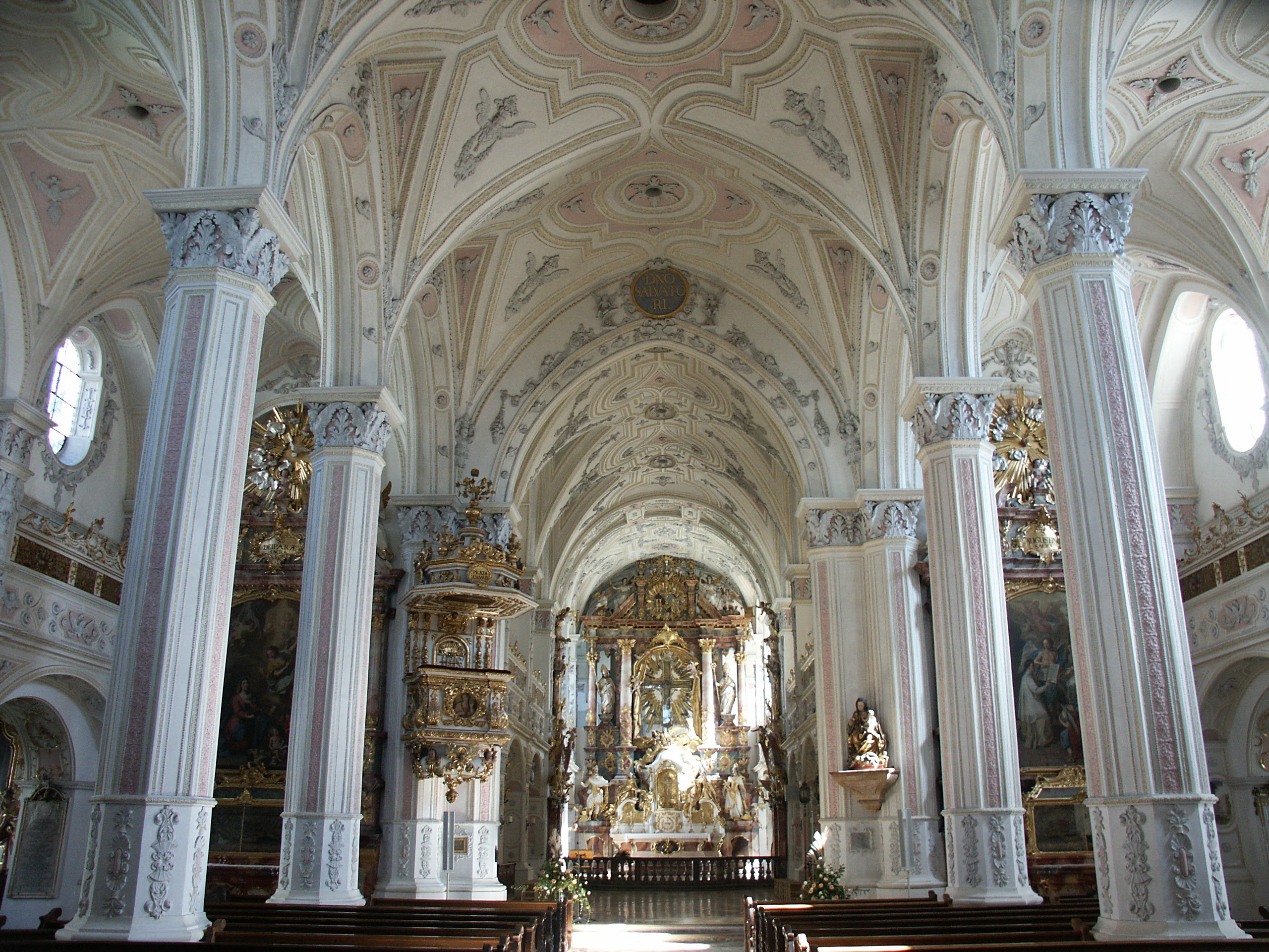 Pfarrkirche Polling